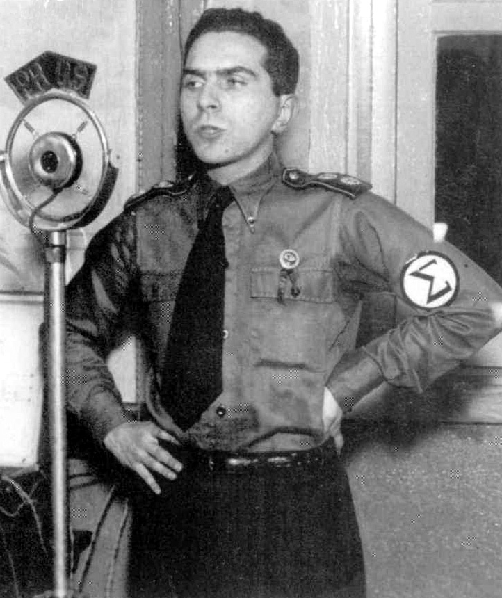 Miguel Reale em uniforme da Ação Integralista Nacional